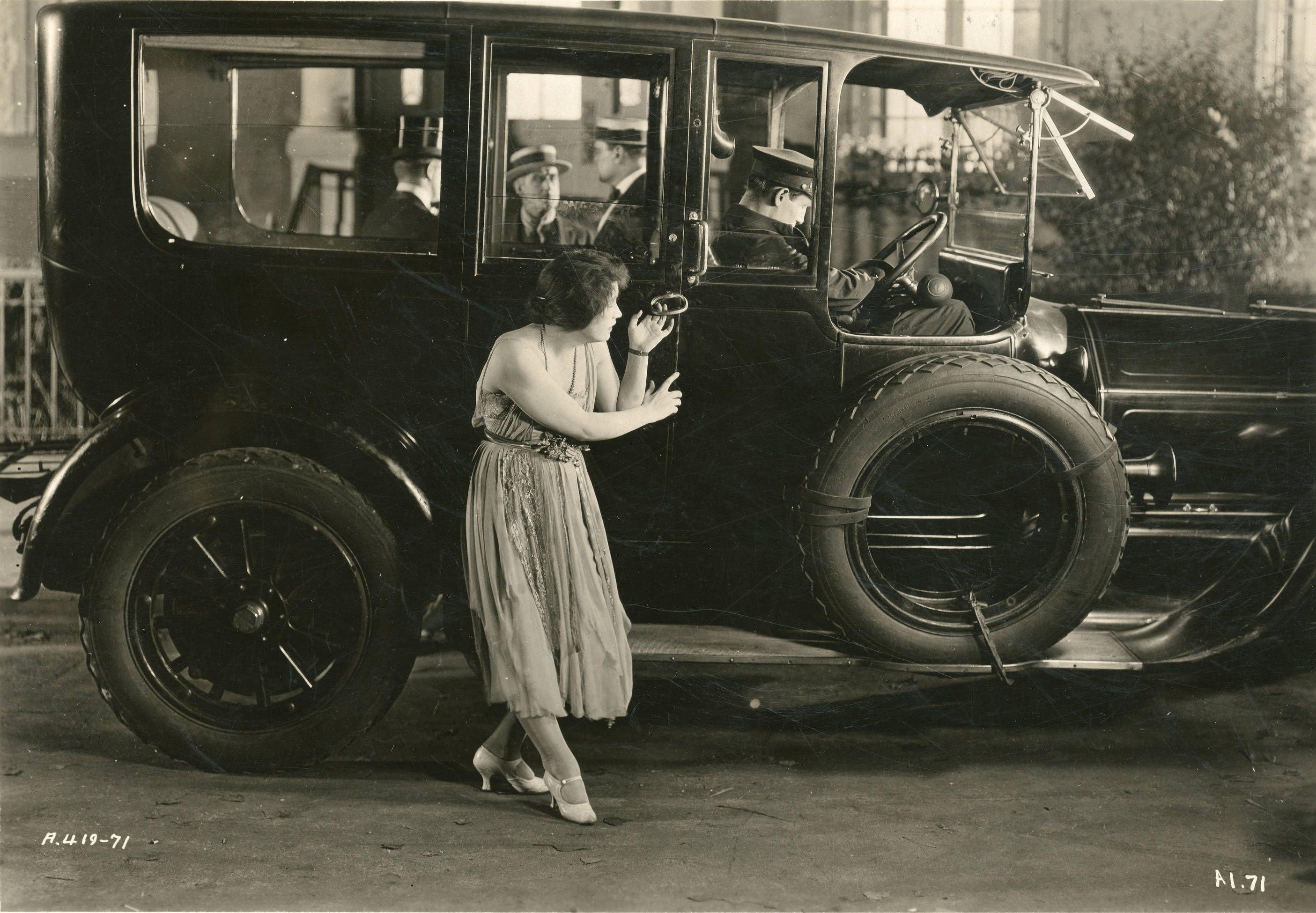 Still from the American silent mystery drama film Find the Woman (1922). Subjects: motion pictures, actresses, Paramount Pictures